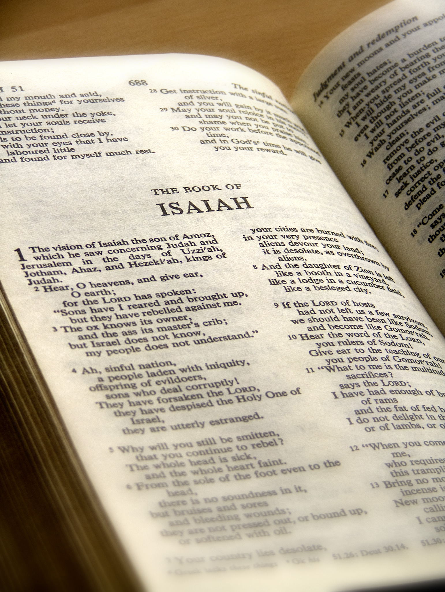 Photo of the Book of Isaiah page of the Bible